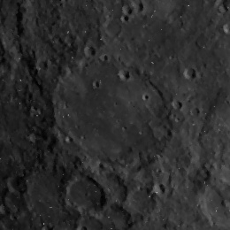 Milton crater on Mercury. Cropped from Mariner 10 image 0167015.